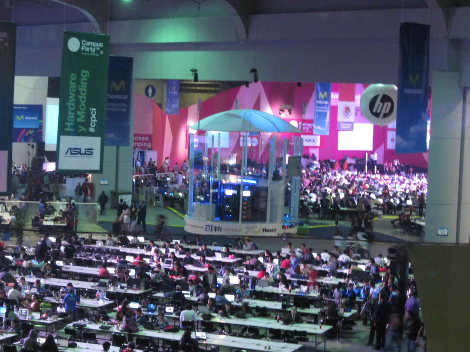 Ovni (Control Center) at Campus Party México 2011 (CPMX3)